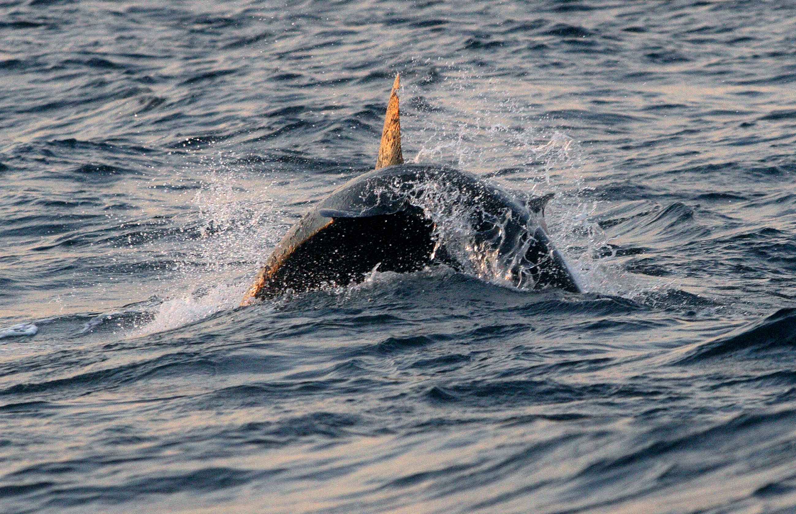 The acrobatic white shark makes a breach (a jump) after the Cape fur seals. The best chance to see this in action is during the early mornings hour. They are hunted after the seals in False Bay outside Simons Town, South Africa. Photo by: Jan Fleischmann